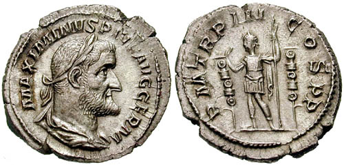 Maximinus I 235-238 AD. AR Denarius (3.08 g). Struck 237 AD. MAXIMINVS PIVS AVG GERM, Laureate, draped and cuirassed bust right (cuirass very minimal if there?) P M TR P III COS P P Emperor standing left between two standards, raising right hand and holding sceptre. RIC IV 5; BMCRE 161; RSC 64. EF.